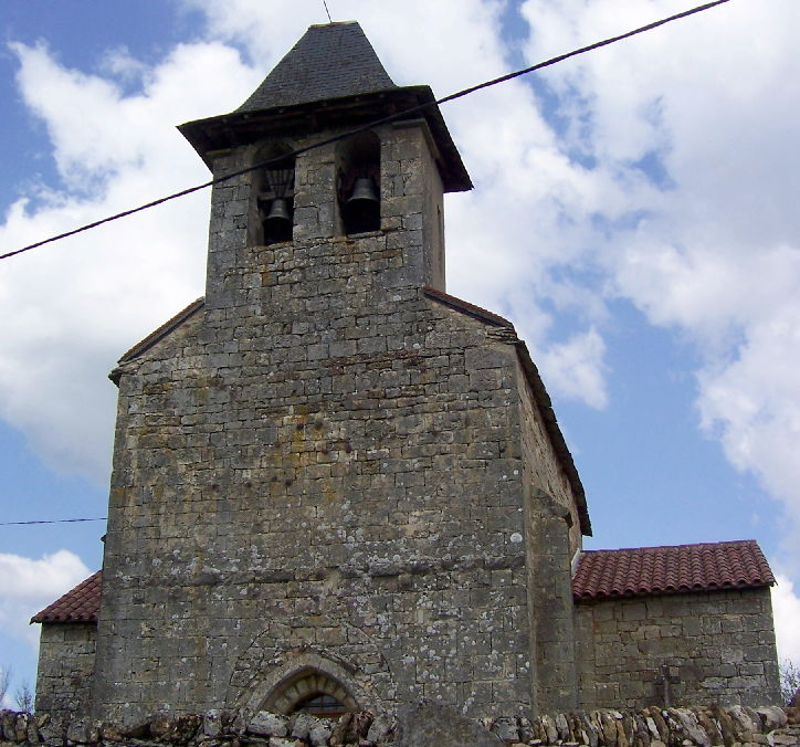 View from bell tower of church of town Sonac in Lot department in France.